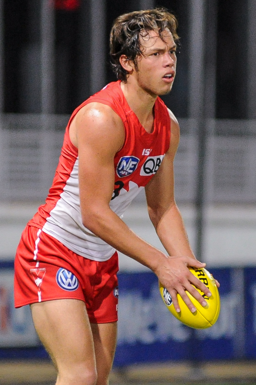 Oliver Florent playing for the Sydney Swans' reserves in April 2017.